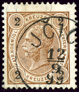 2 kr stamp of Austrian monarchy cancelled in 1899 at Jčici (Croatia)